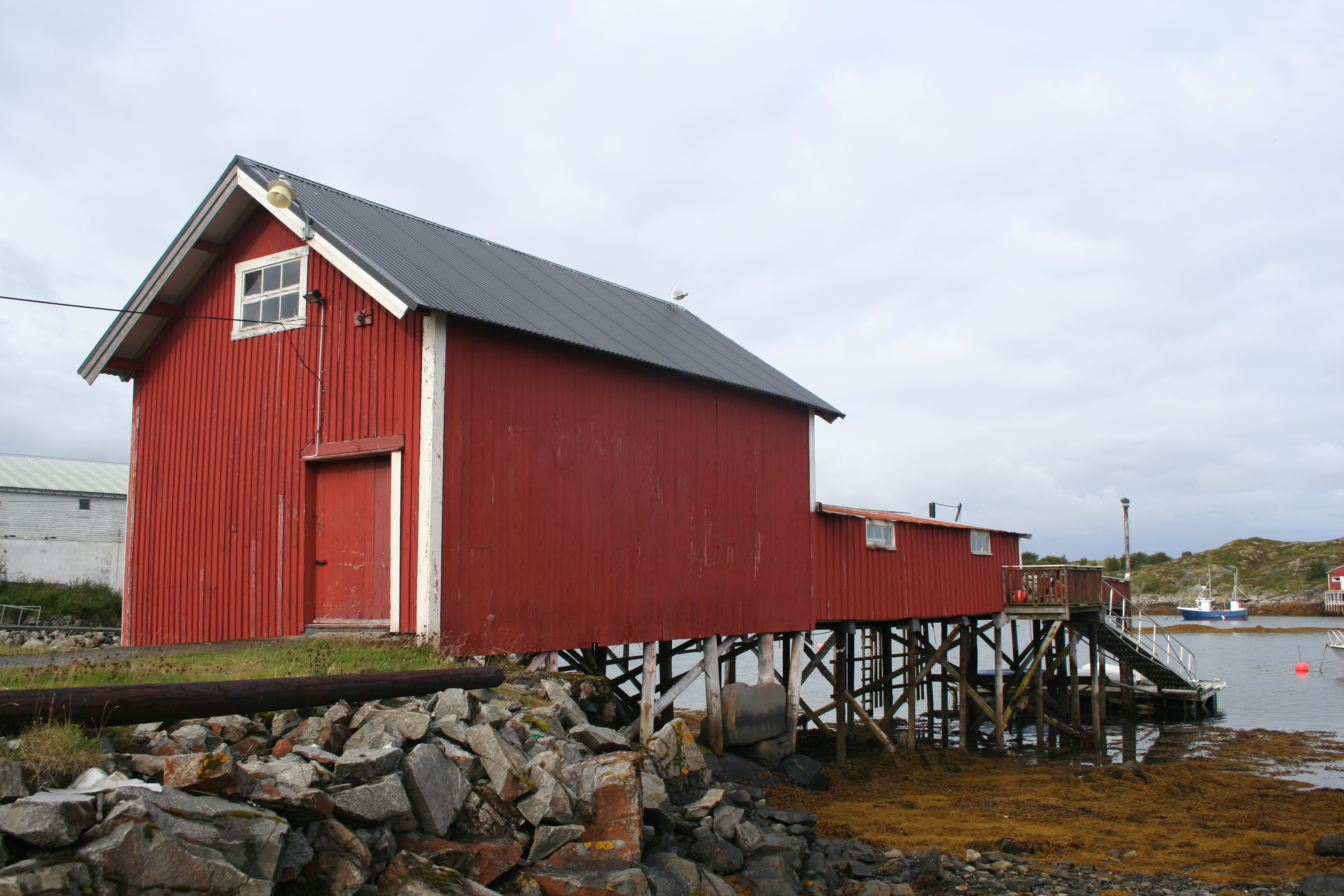 Boathouse, Vega, Norway